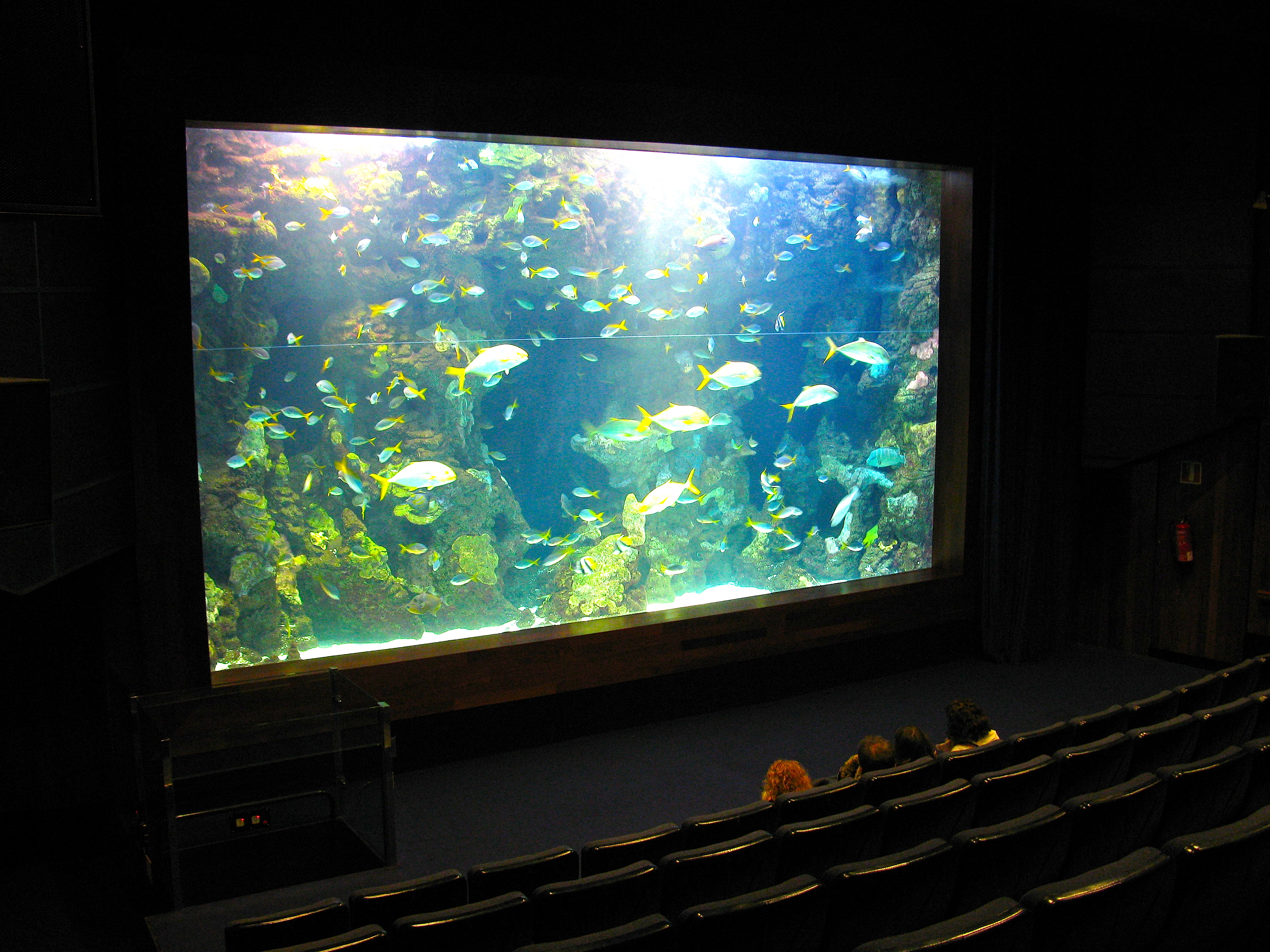 Aquarium of the conference room, aquarium of Donostia-SanSebastian (Basque country, Spain)